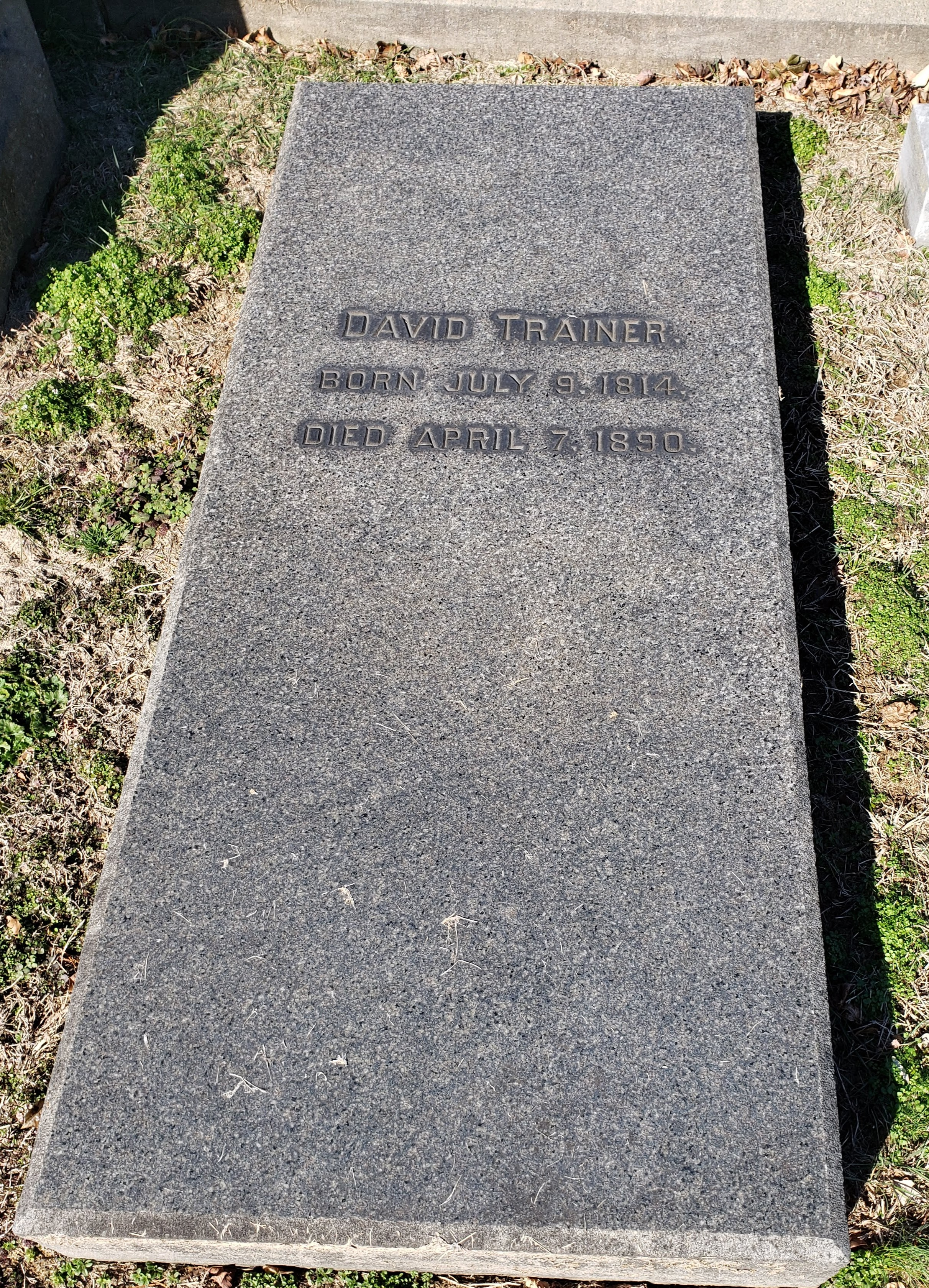 David Trainer gravestone in Chester Rural Cemetery. Photo taken March 2020.